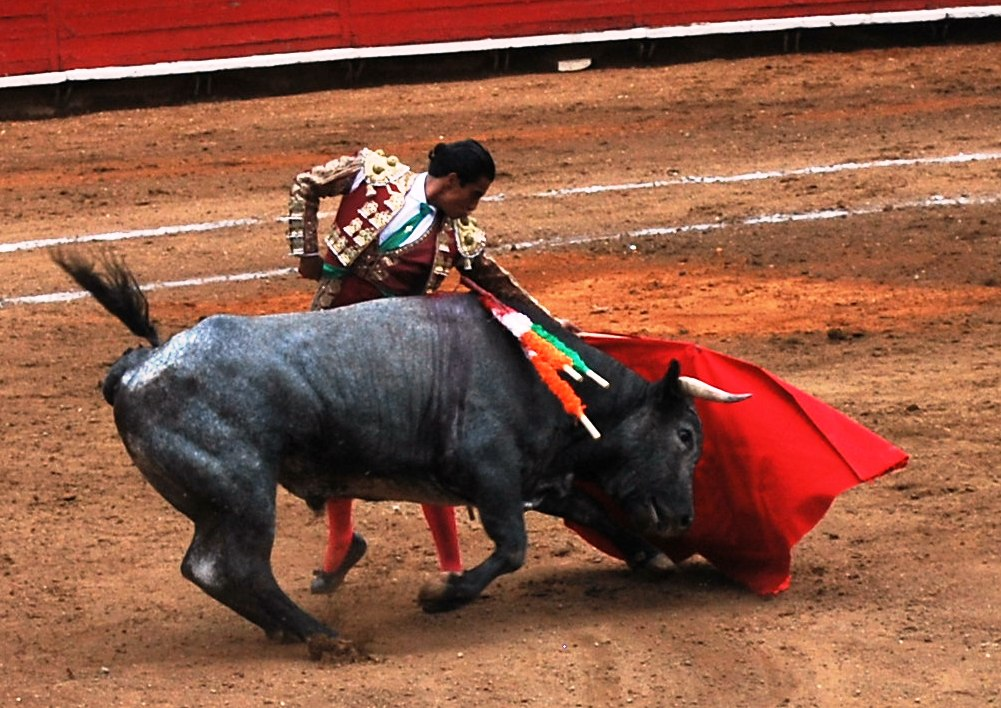 Principe and matador Jose Pedro Rodriguez Zavala at the 28 June event at the Plaza de Toros in Mexico City